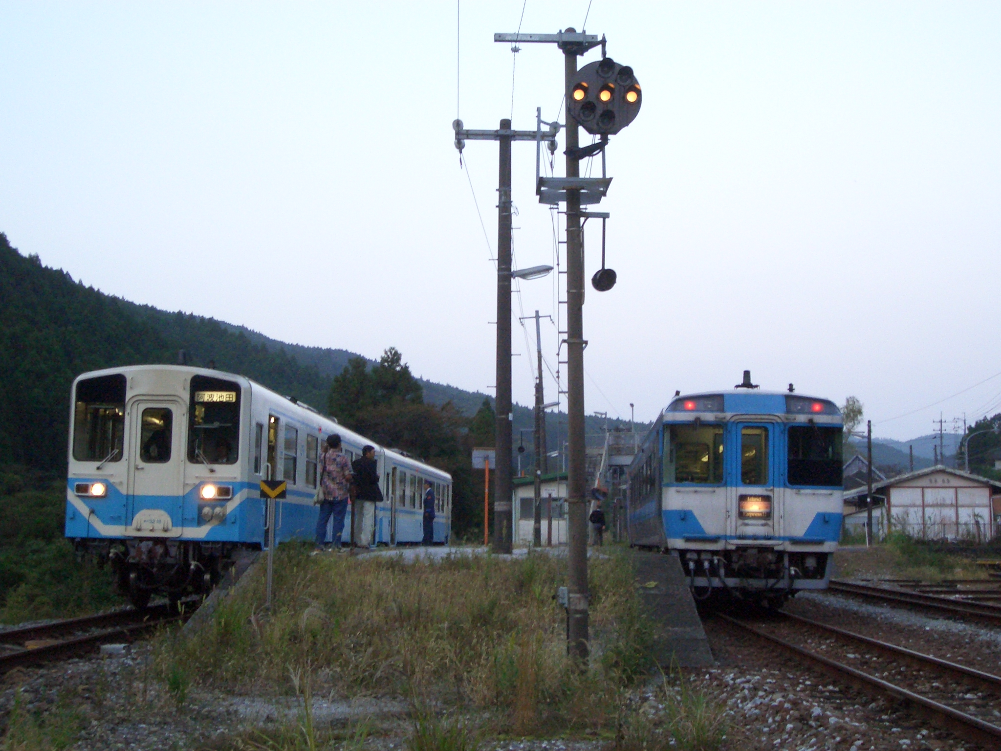 Shigetō Station.